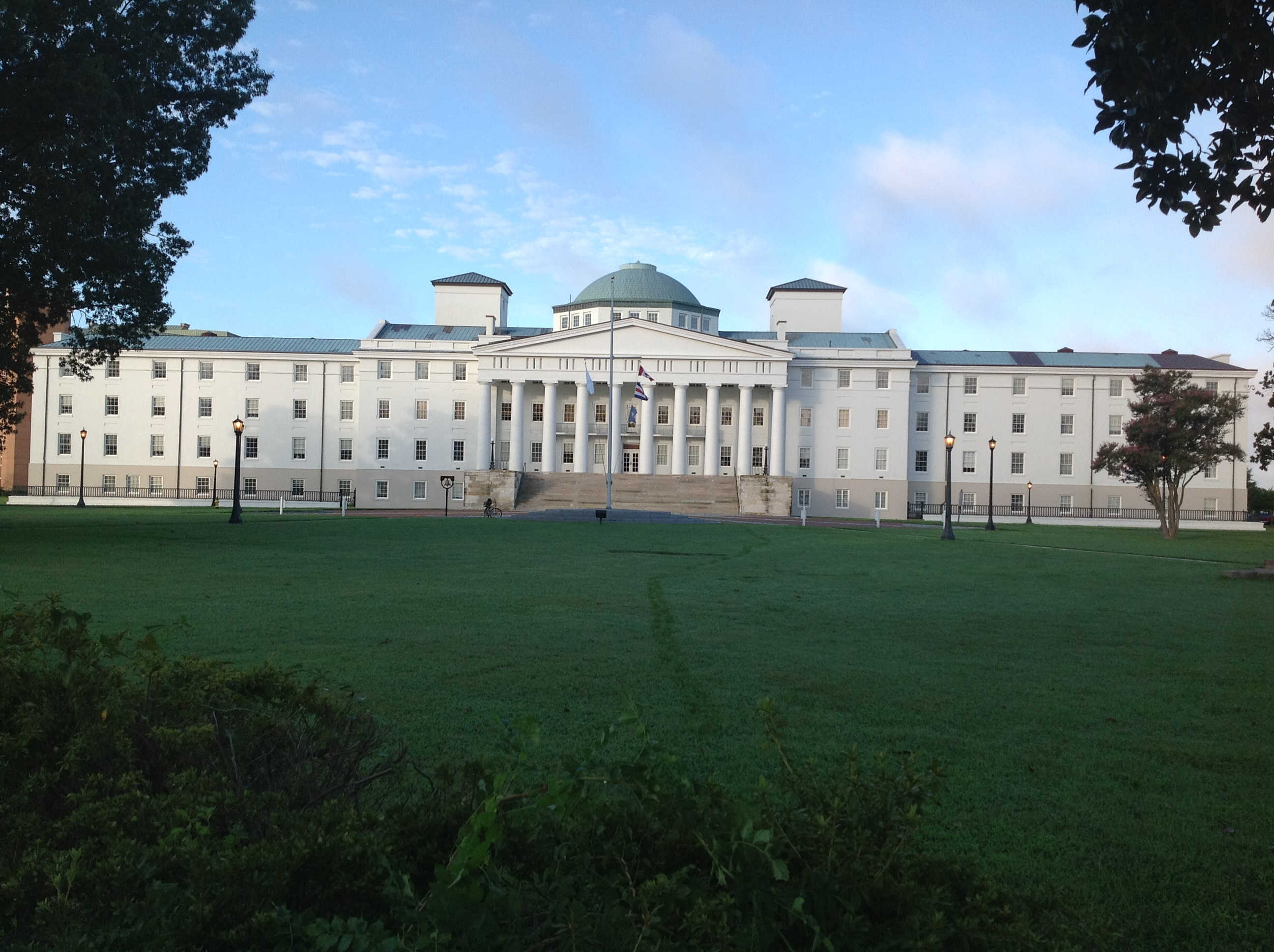 Naval Medical Center Portsmouth taken close up showing the entire front facade